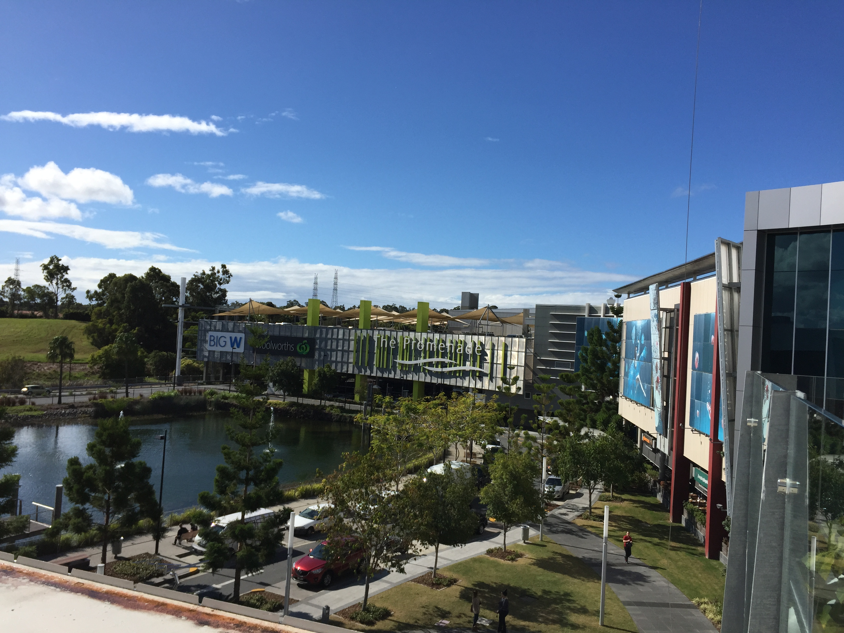 Robina Town Centre